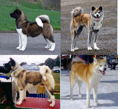 Akita are seperated into two different styles which are the American style (left) and Japanese style (right)